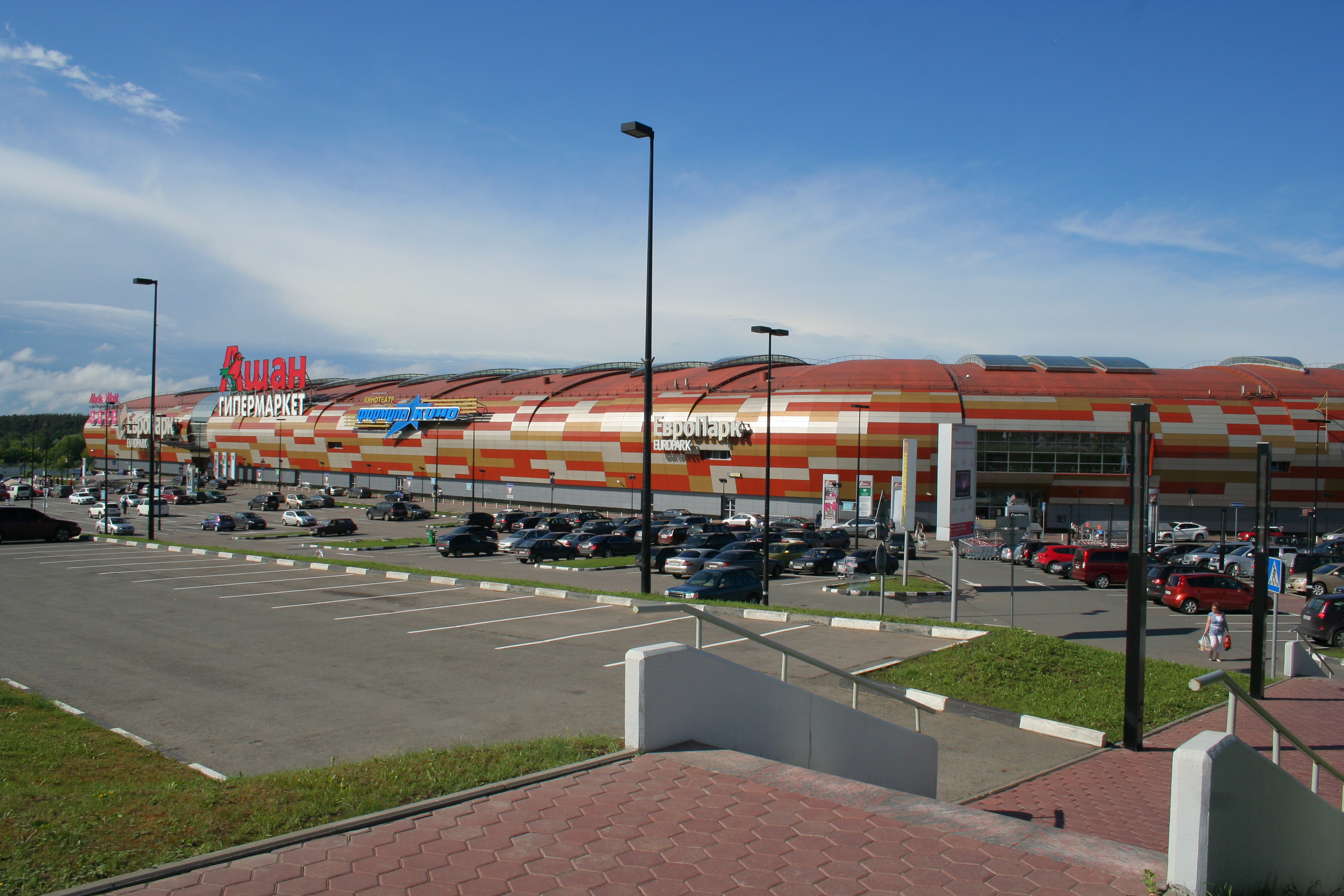 «EuroPark» shopping mall in Moscow